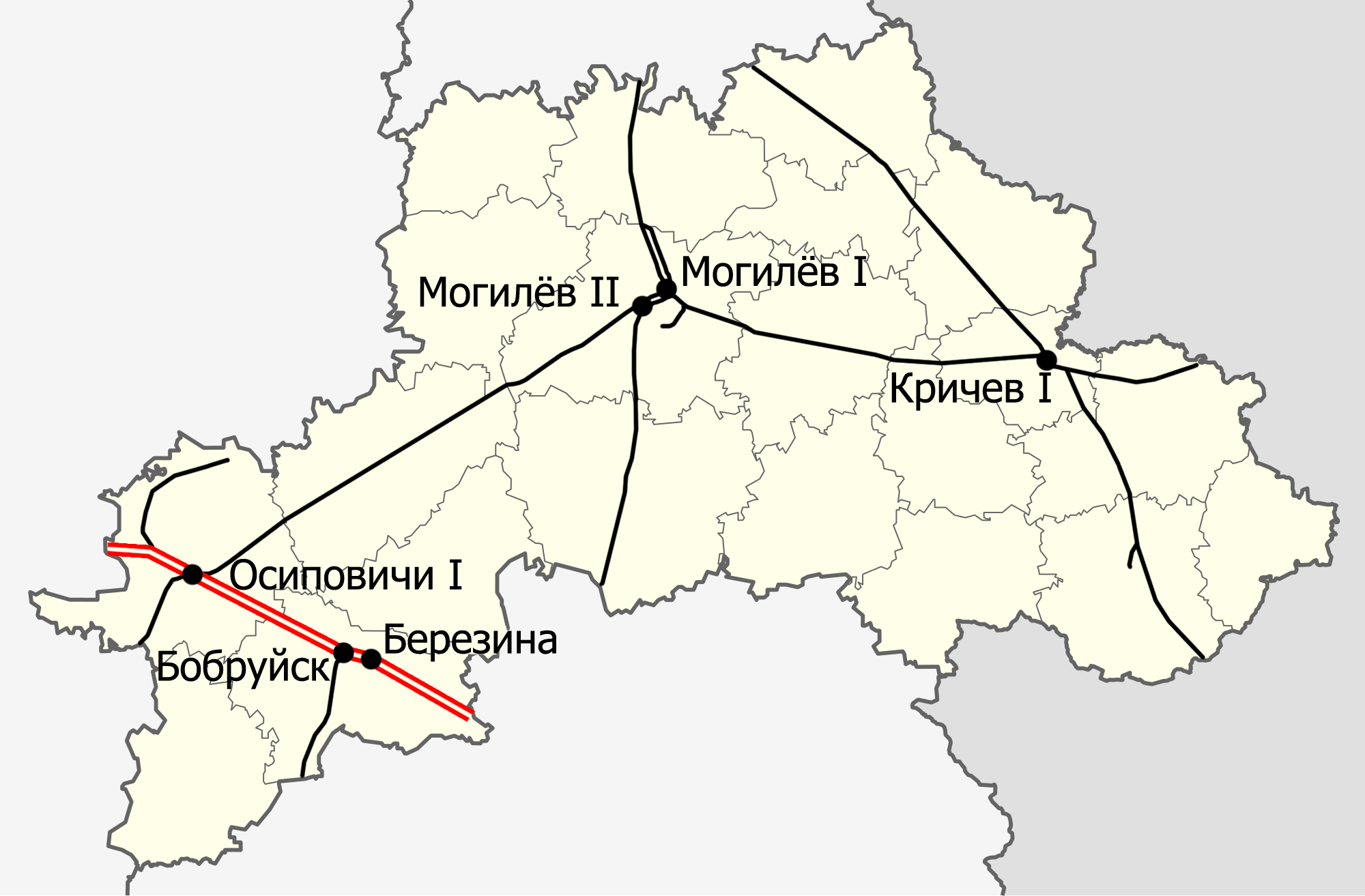 Railroads in Mahilioŭskaja voblasć (Belarus) with main stations signed (in Russian). Electrified line is in red.